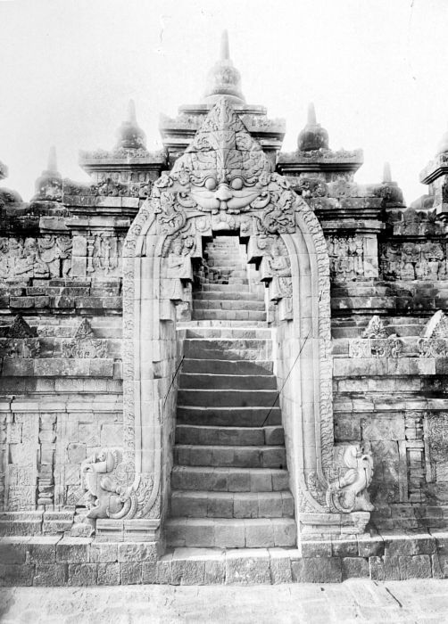 Gate at the Borobudur